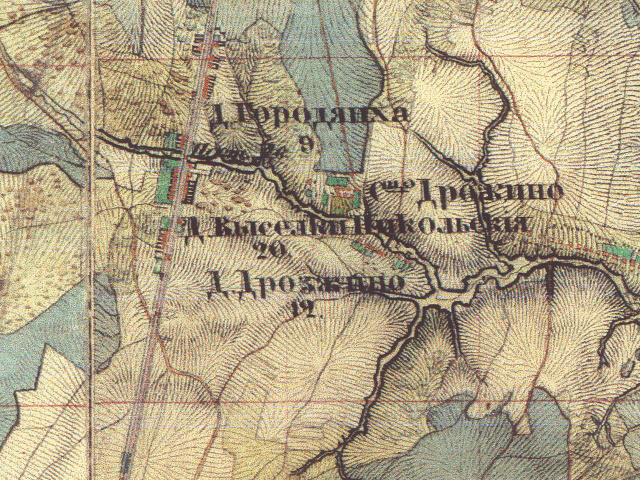 Former village in Moscow District "Yuzhnoe Butovo (South Butovo)"